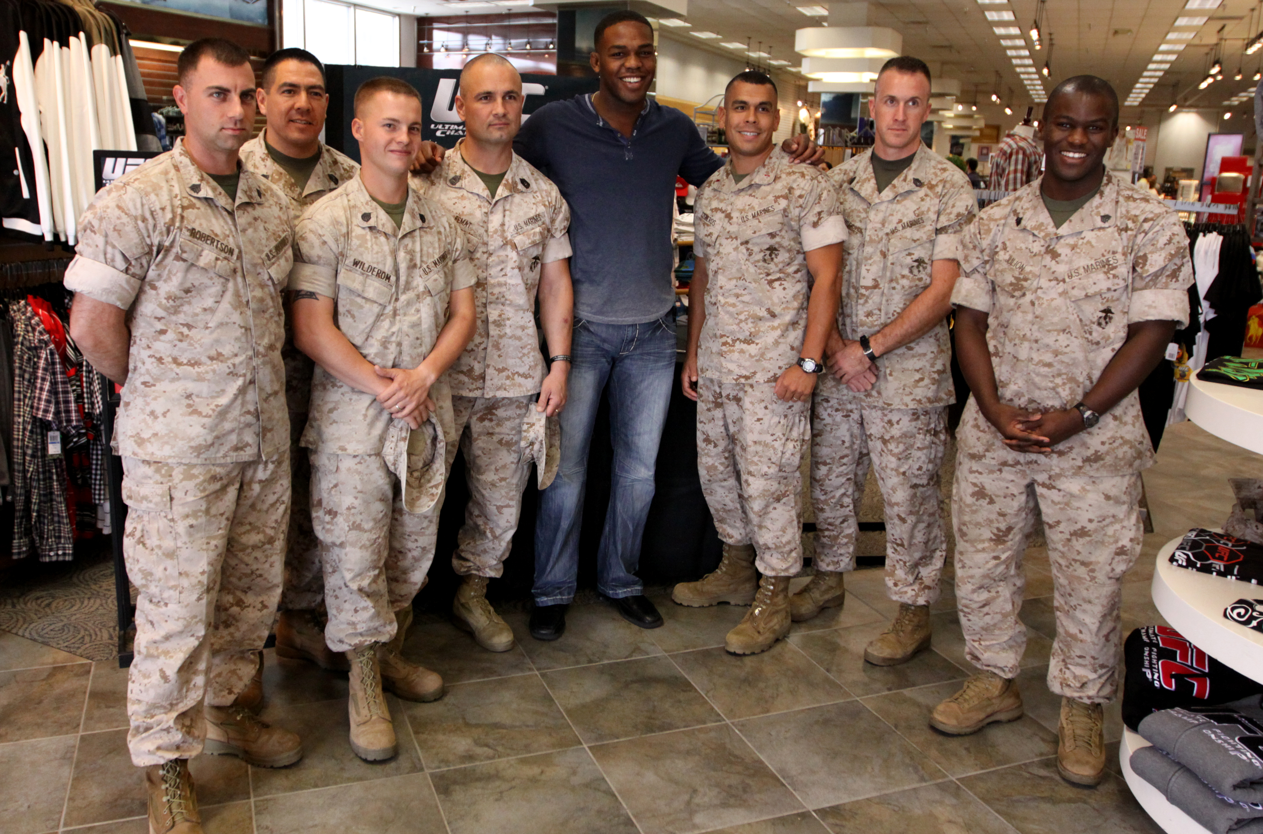 Ultimate Fighting Championship light heavy weight Jon “Bones” Jones poses with Marines from Combat Logistic Regiment 17 during his visit to Camp Pendleton’s Main Exchange, Oct. 22. Jones visited the base in order to get know the Marines and chat about his upcoming fight against undefeated light heavy weight Ryan Bader on Feb. 5. Jones has proven himself worthy to the UFC by compiling a mixed martial arts record of 11 wins and one loss.